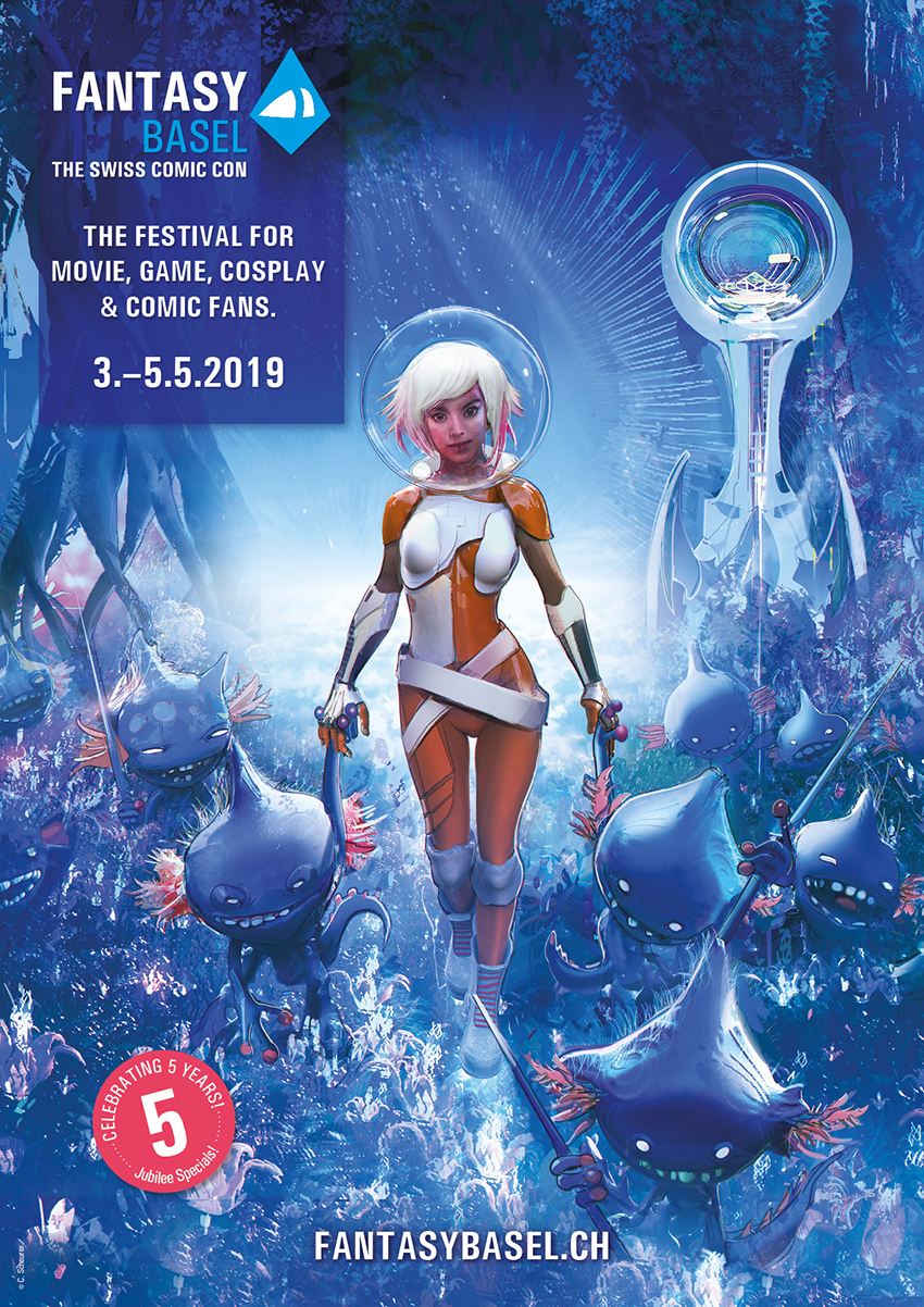 Visual: FANTASY BASEL - The Swiss Comic Con 2019 by Christian Scheurer